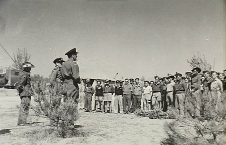 AWM caption : Cesenatico, Italy. 25 April 1945. Gathering round their flagstaff where the Union Jack flag flew at half-mast, members of No. 454 (Baltimore) Squadron RAAF observed Anzac Day with a simple but inspiring service, conducted by Squadron Leader (Sqn Ldr) J. Fred McKay, Padre. Sqn Ldr McKay later worked as Superintendent of the Australian Inland Mission and, like John Flynn, was Moderator General of the Presbyterian Church of Australia.